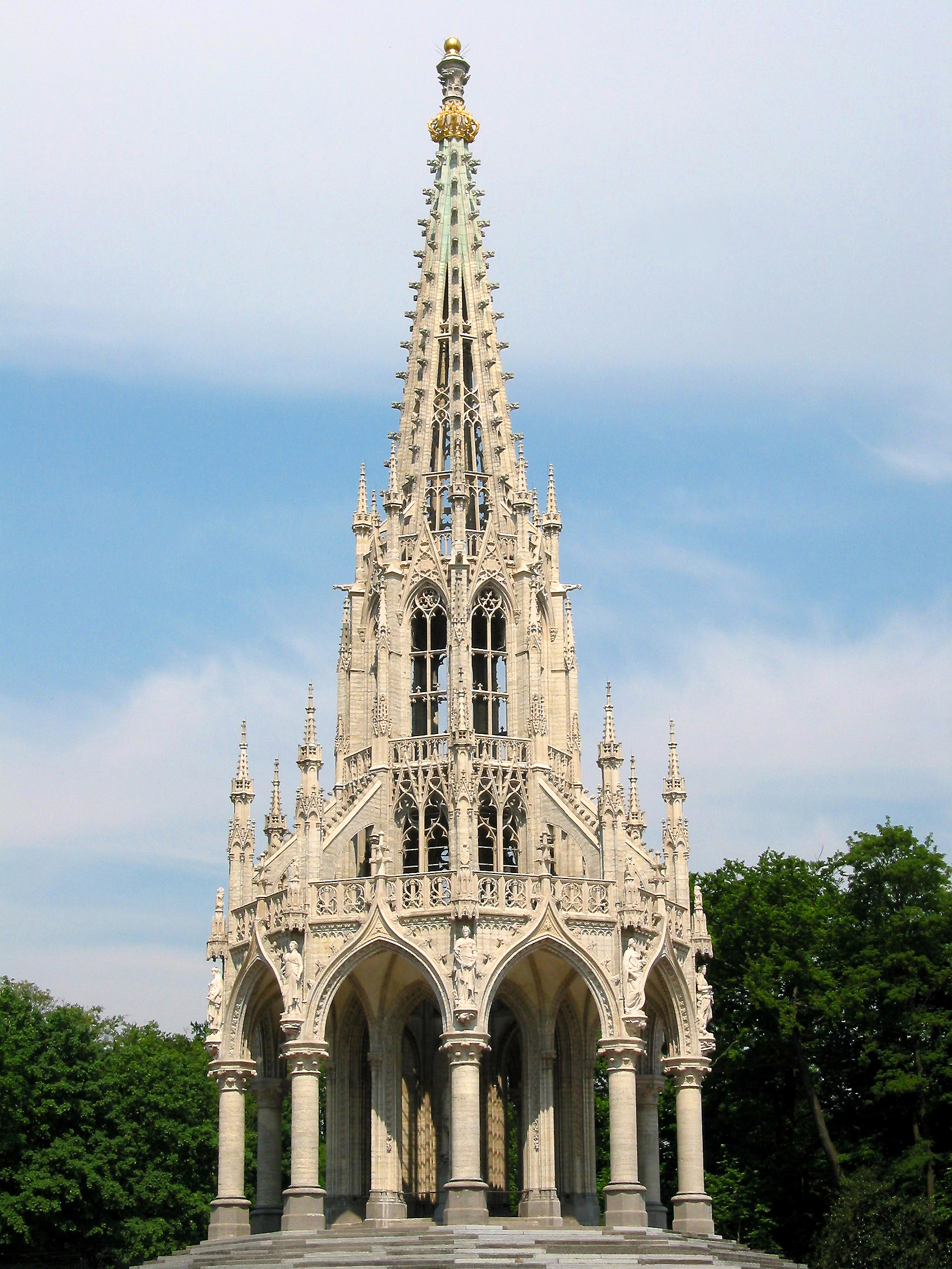 Laeken (Belgique), le parc (architecte:Edouard Keilig - 1876-1880) et le monument de la dynastie (architecte:De Curte - 1880).